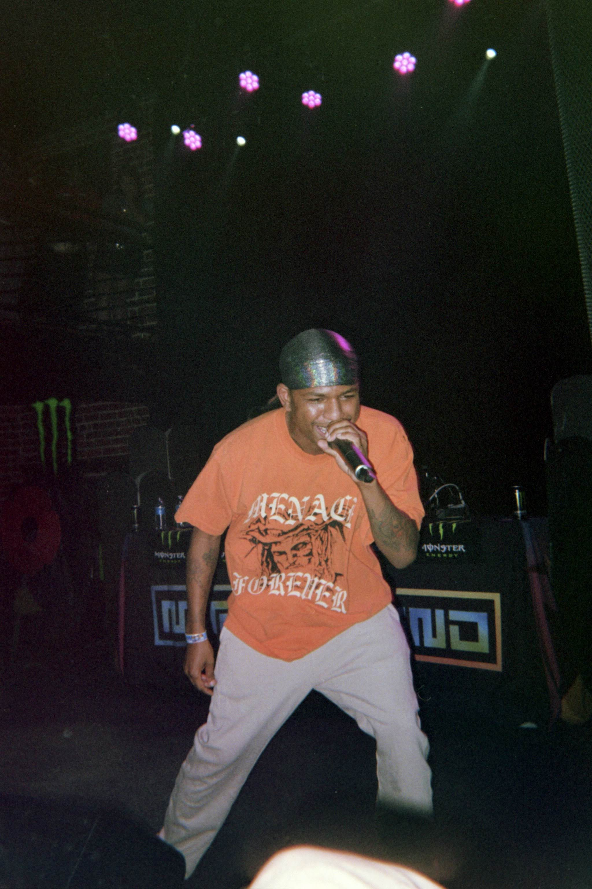 Photograph by Josh Jaffe (@josh_jaffe)